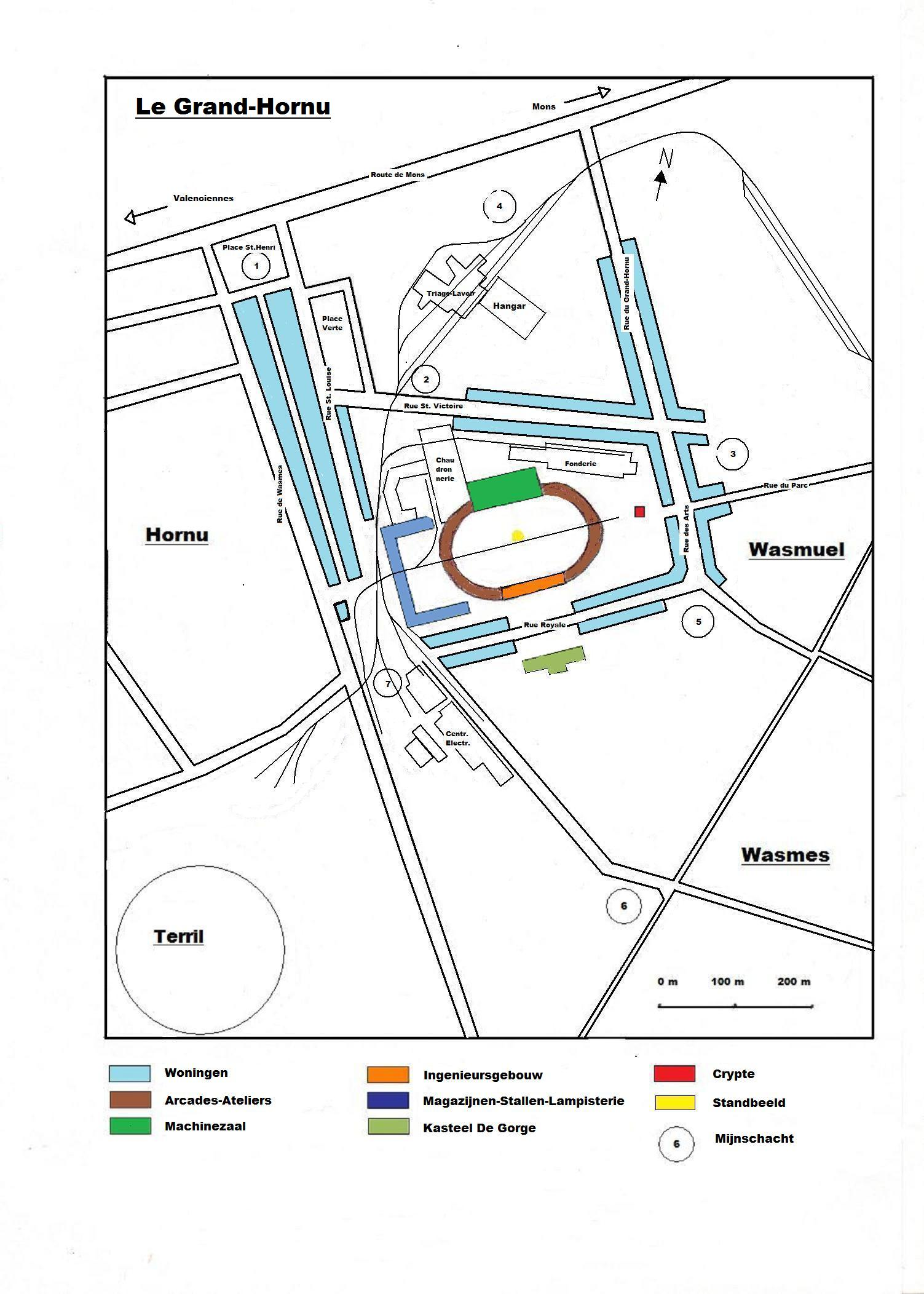 Le Grand-Hornu site plan around 1920